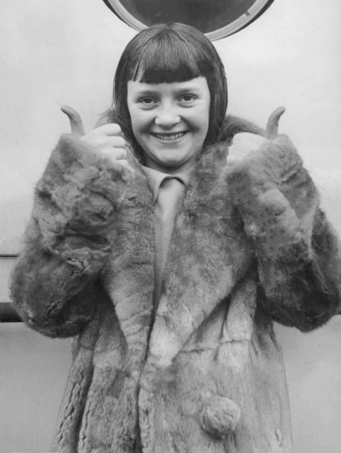 1932 Press Photo Megan Oliver Taylor Catches First Glimpse of NY Skyline